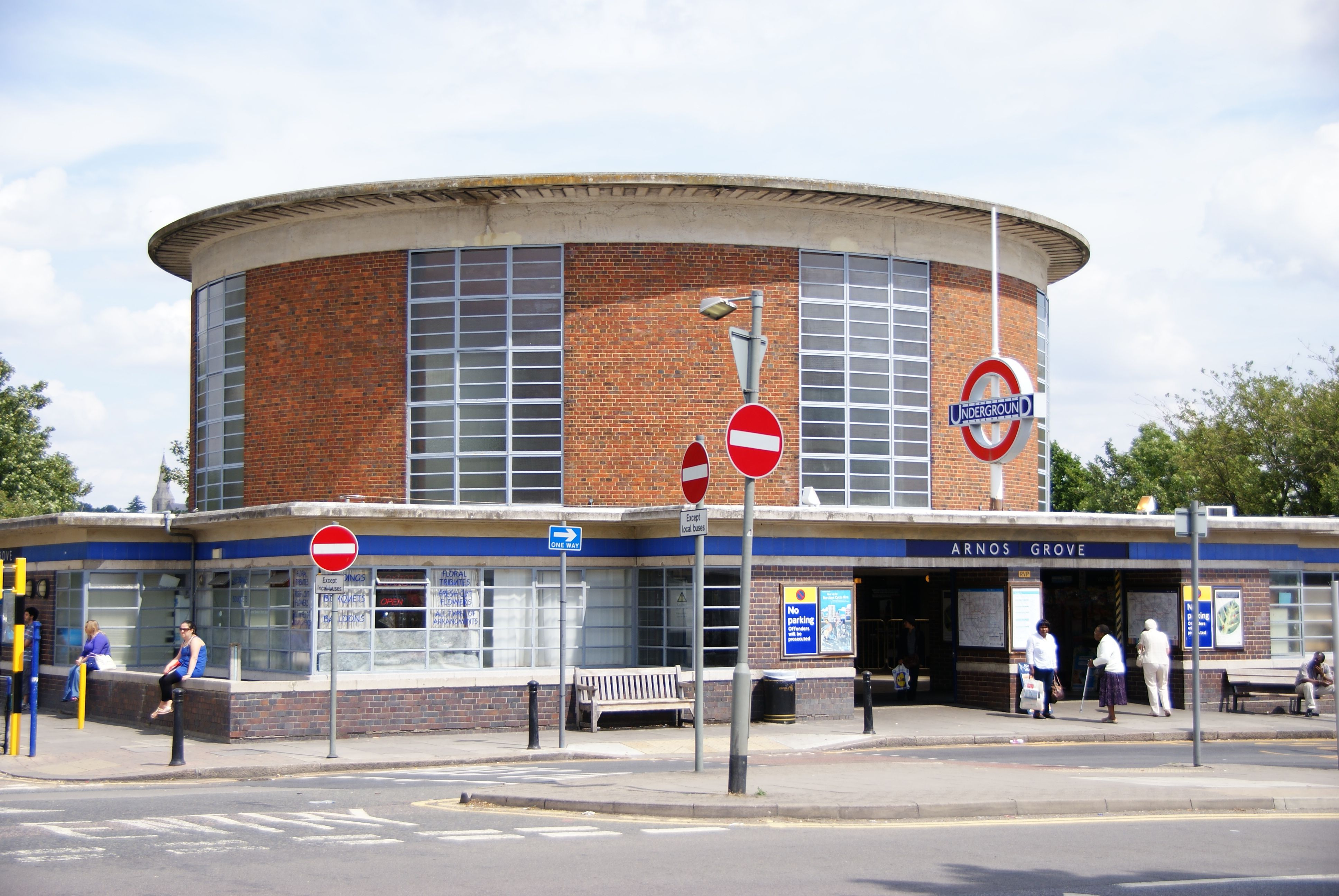 The old Passimeter has a good exhibition about underground architecture and Charles Holden